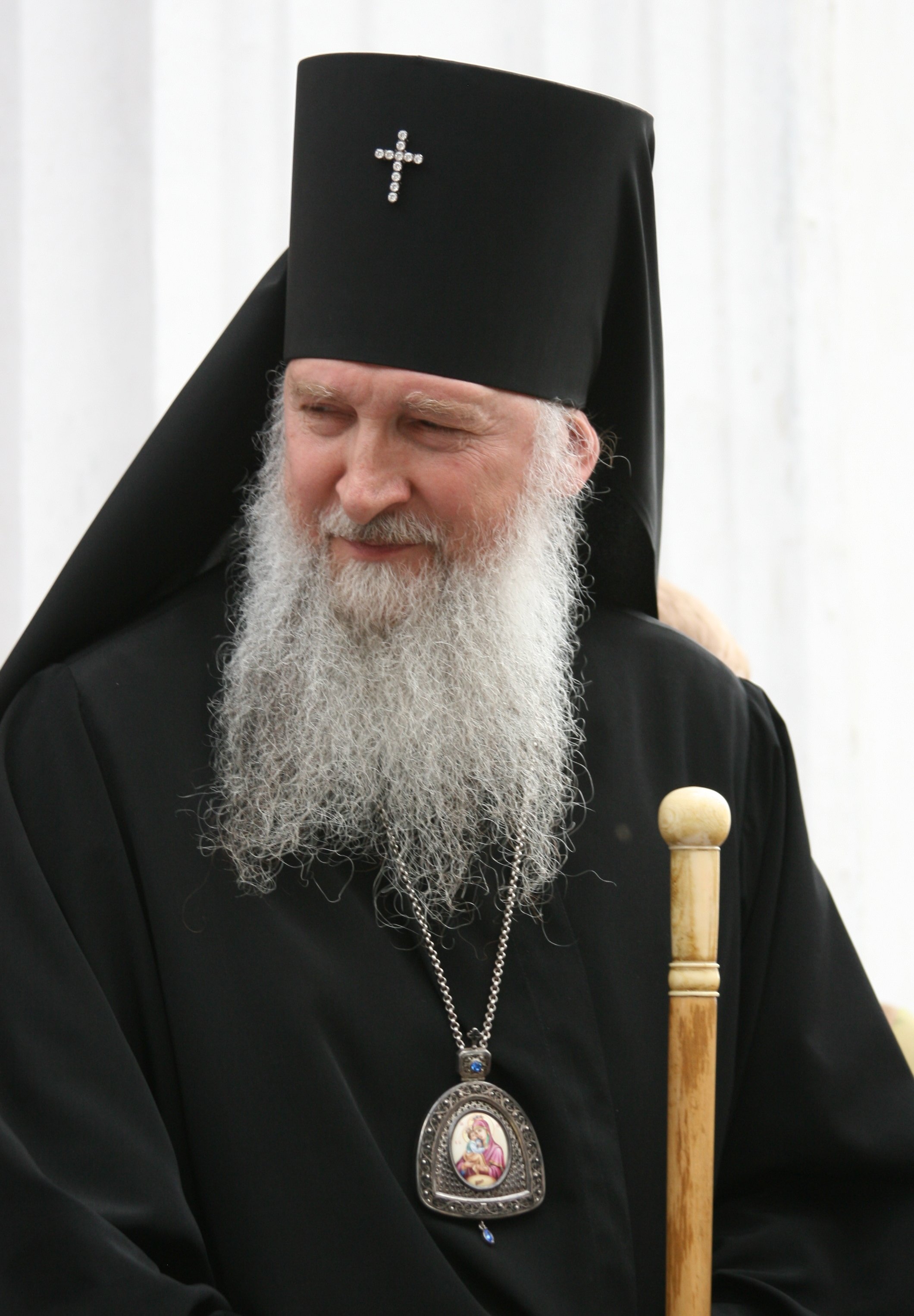 Bishop Theodor of Kamyanets Podilsky